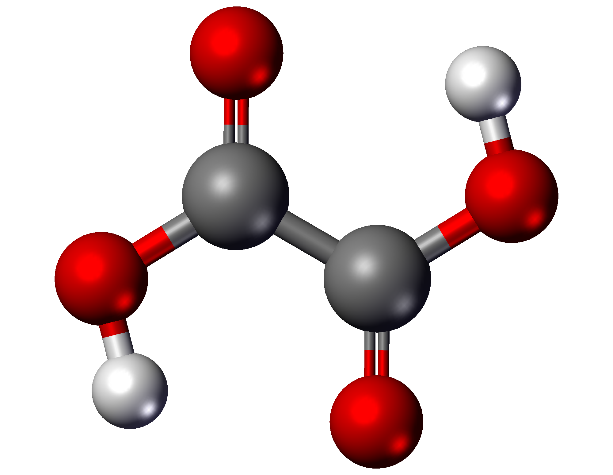 3D stick-and-ball model of oxalic acid molecule. Prepared with Discovery Studio Visualizer 1.7 and GIMP 2.2